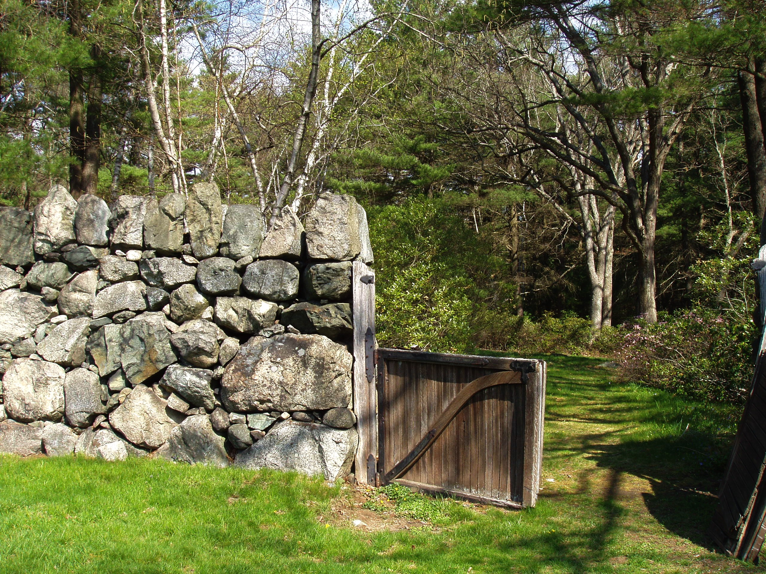 Case Estates, Weston, Massachusetts - Stone wall with gate. Photograph taken by me, April 27, 2006.